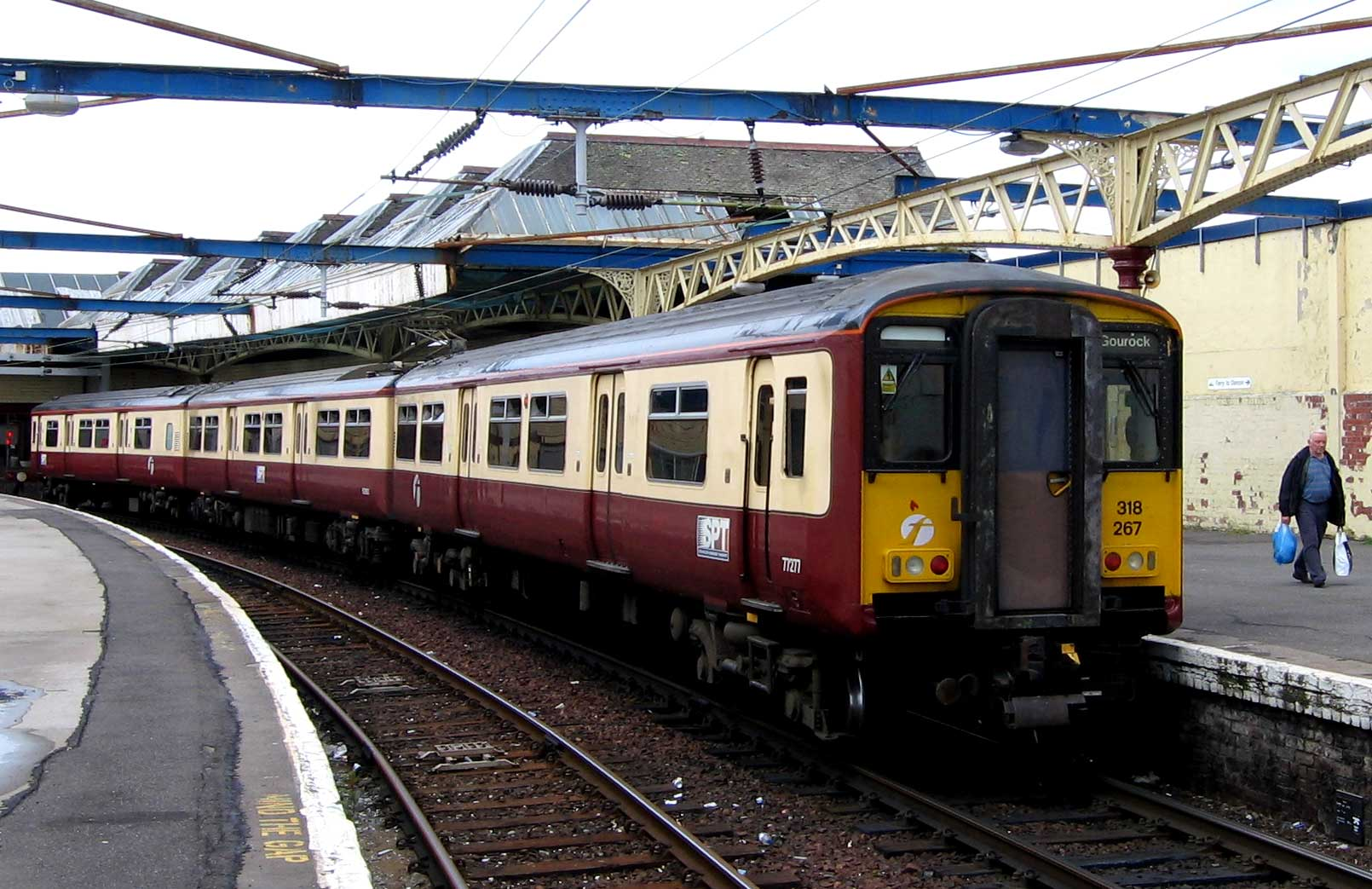 Strathclyde Partnership for Transport British Rail Class 318 train at Gourock railway station, Gourock